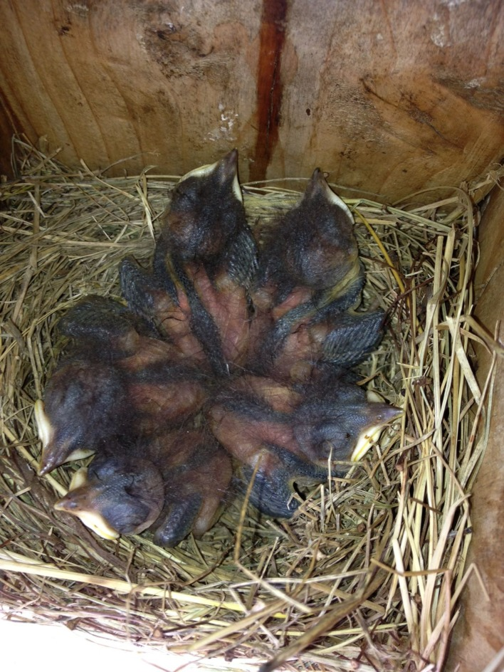 Media belonging article cited on Wikipedia with